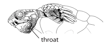 Standard Event System character depiction